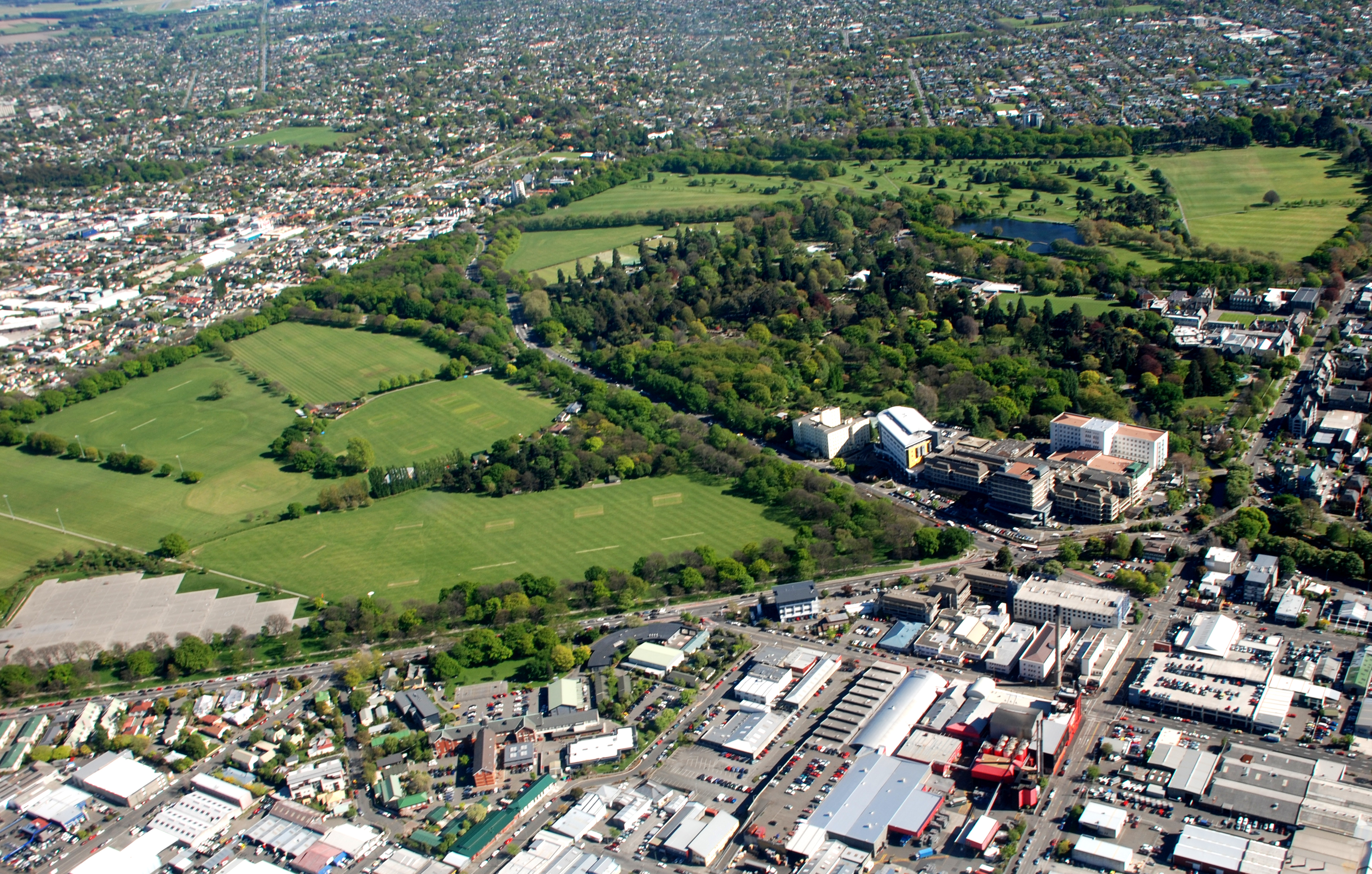 Christchurch Hospital and Hagley High School, Canterbury, New Zealand, 24 October 2007. Photo taken en route Wellington to Christchurch.